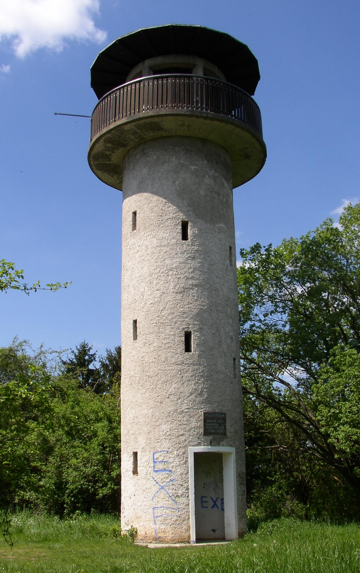 Felten tower in Sinzig in Rhineland-Palatinate, Germany